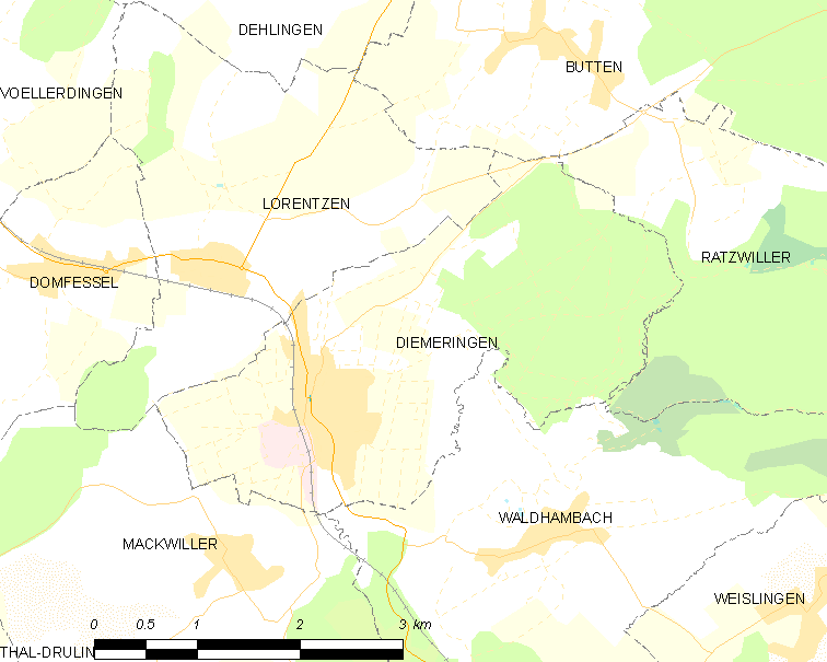 Map of French municipality